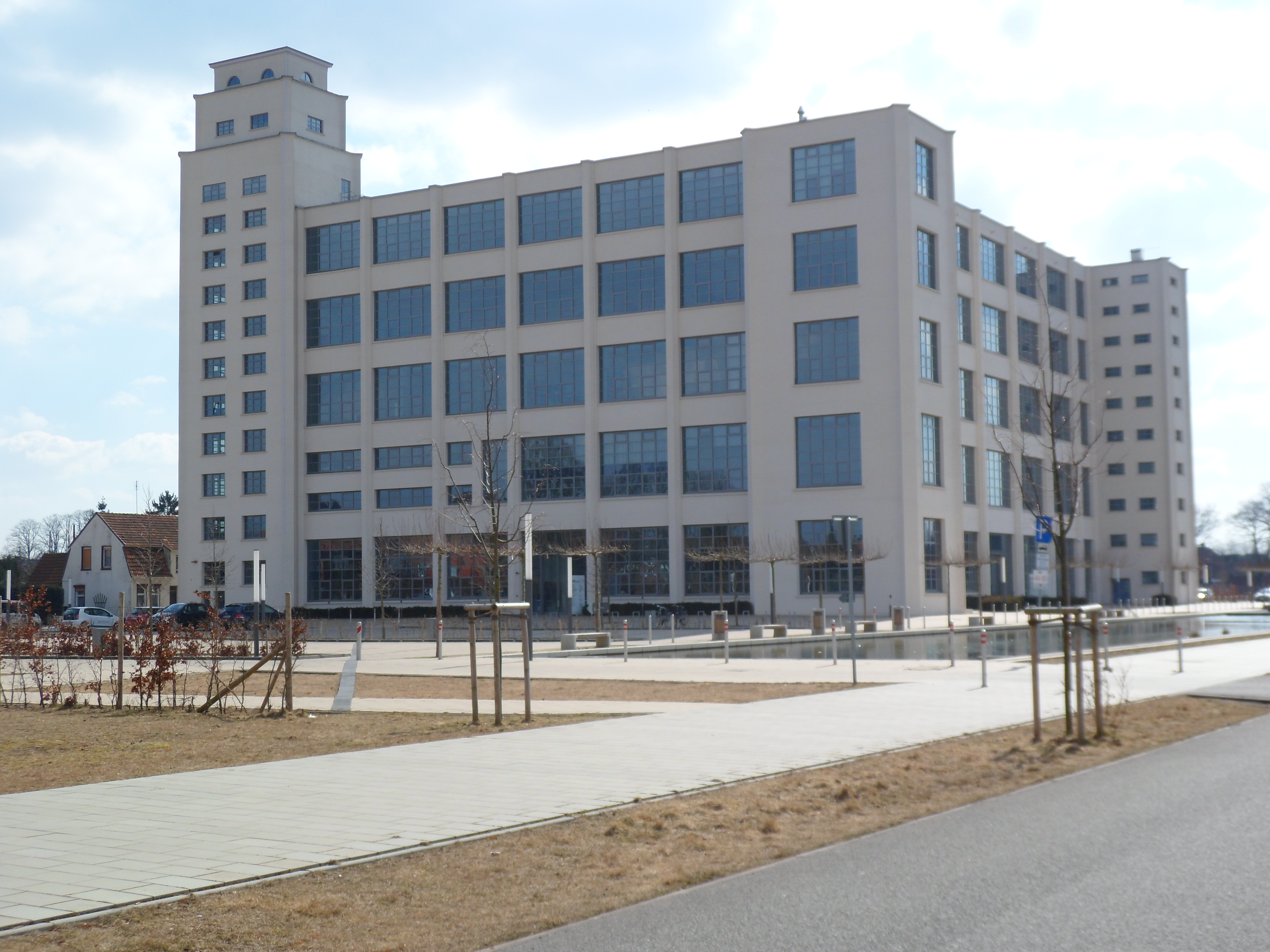 Nordhorn, Spinnerei Hochbau